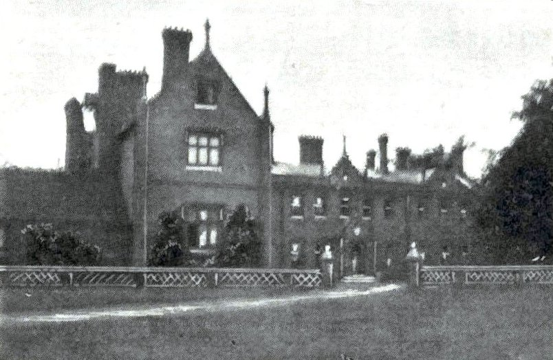 The front of Gawdy Hall, Redenhall, Norfolk, the family hall of the three Gawdy brothers.